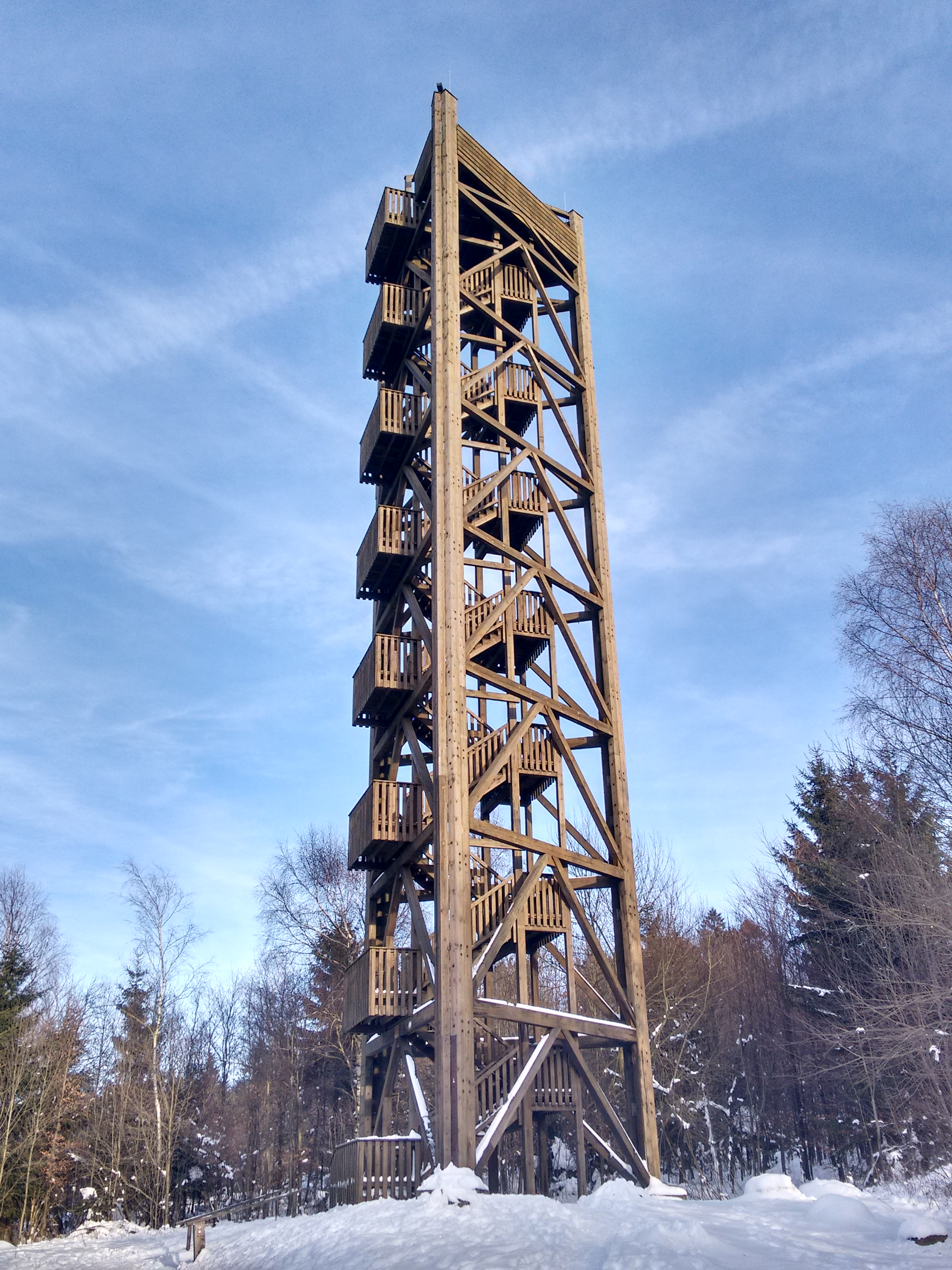 Hochsolling Tower in Holzminden-Silberborn, Germany.